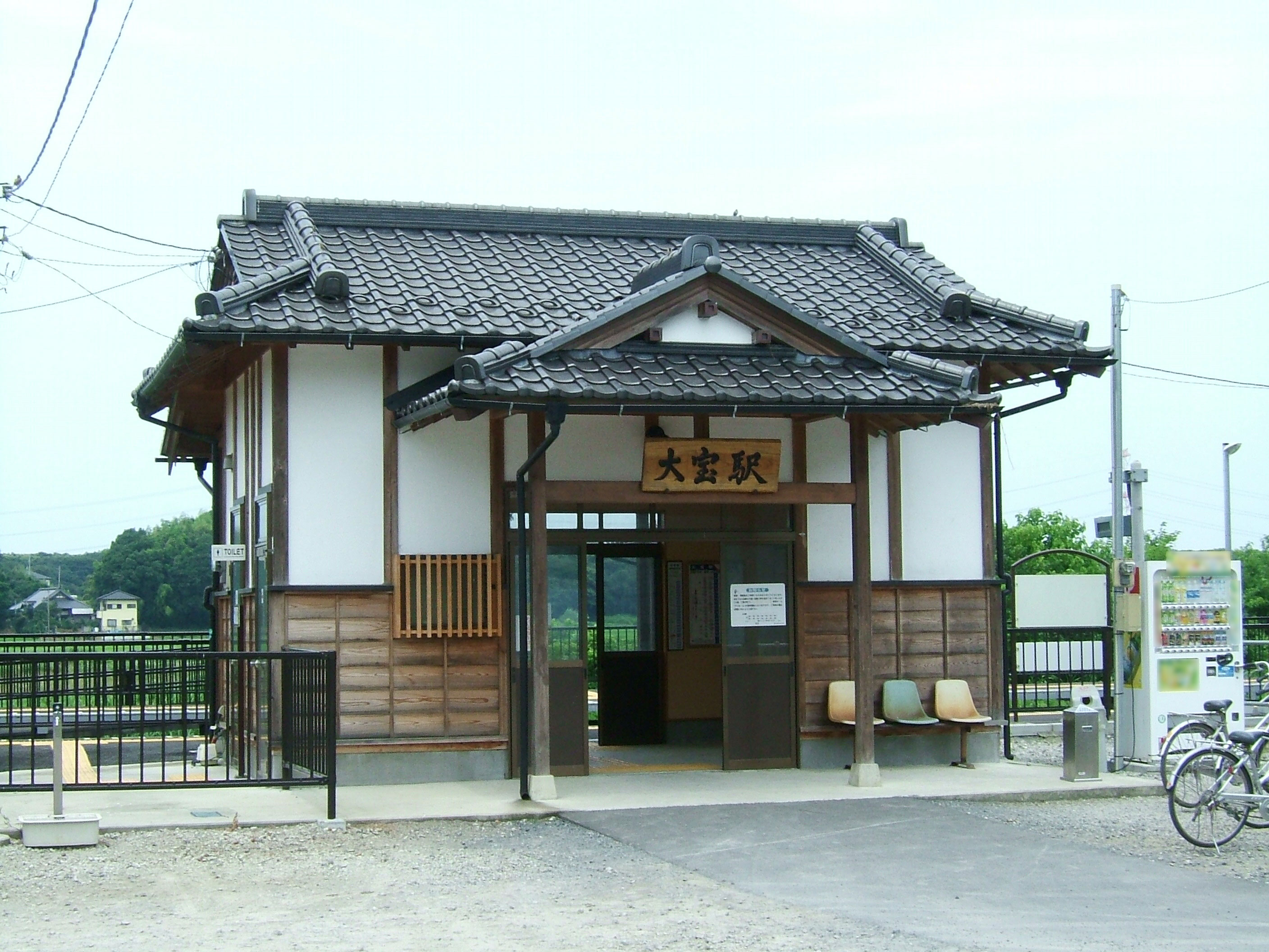 Daihō Station building (Kanto Railway Jōsō Line)